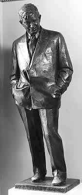 Statue of Will Rogers